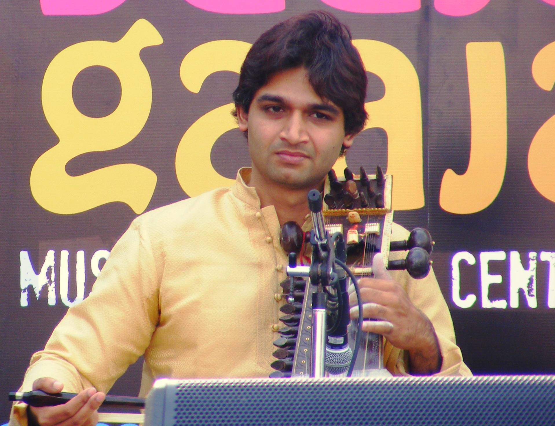 Harsh Narayan plays raga Saraswati at the Baajaa Gaajaa music festival in Pune, Ishanya Mall's Aangan venue